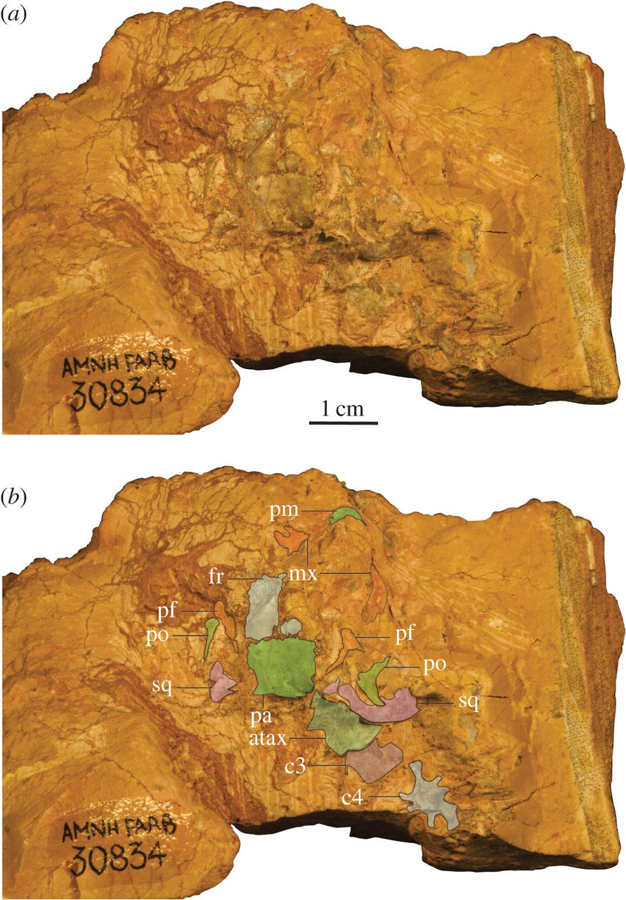 Photograph of the block containing the holotype specimen of Avicranium renestoi (AMNH FARB 30834) in dorsal view (a) without interpretive callouts and (b) with interpretive callouts, indicating the positions of exposed bones. Abbreviations: atax, atlas–axis complex; c3, cervical vertebra 3; c4, cervical vertebra 4; de, dentary; fr, frontal; mx, maxilla; pf, postfrontal; pl, palatine; pm, premaxilla; po, postorbital; sq, squamosal.